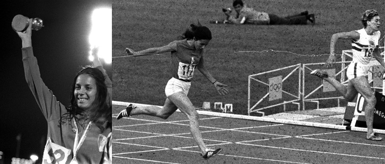 The French athlete Colette Besson wins the 400 meter at the Mexico Olympic Games in 1968.